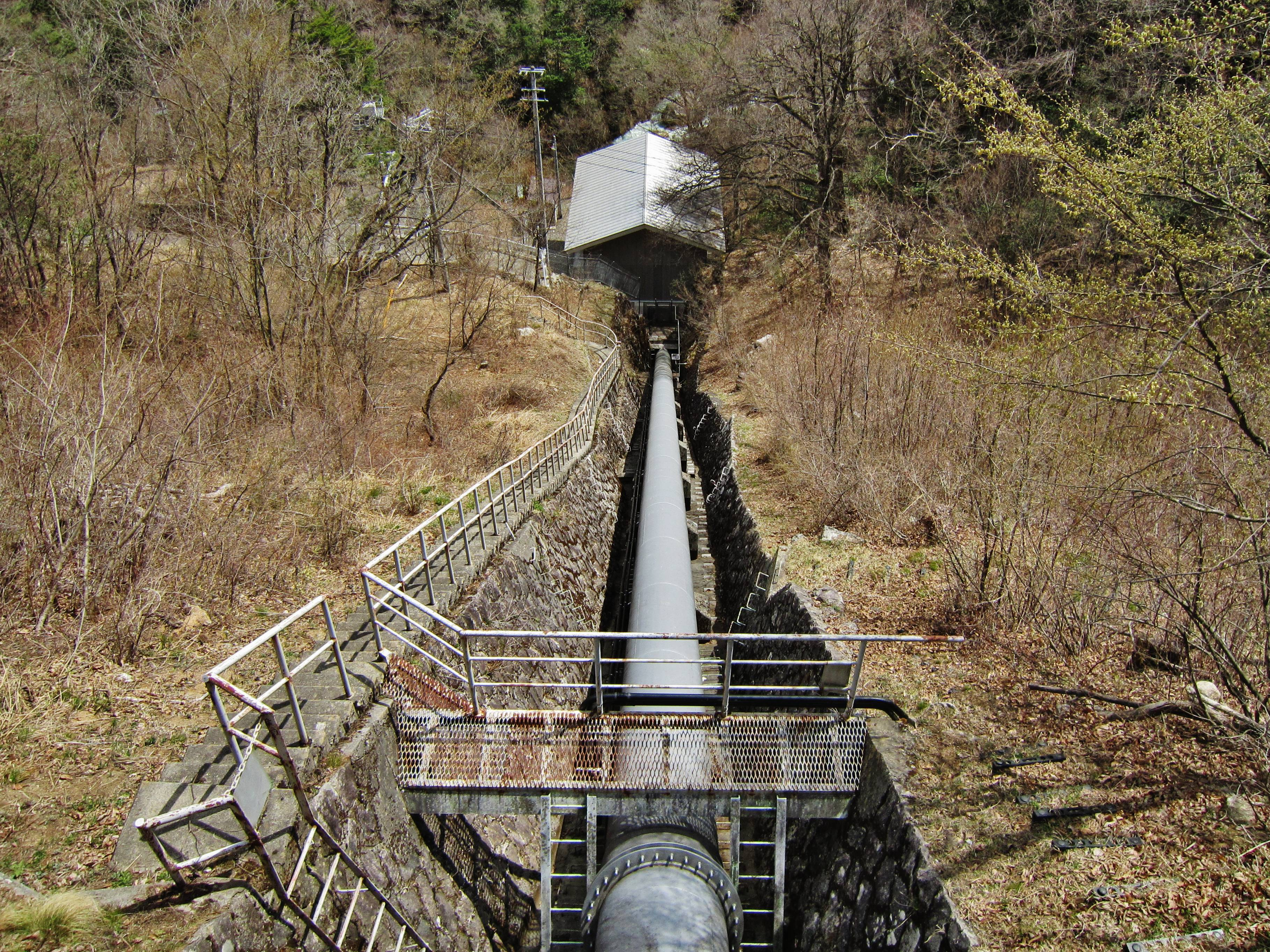 Miyashiro II power station.